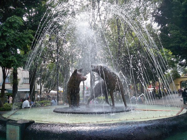 fuente coyotes